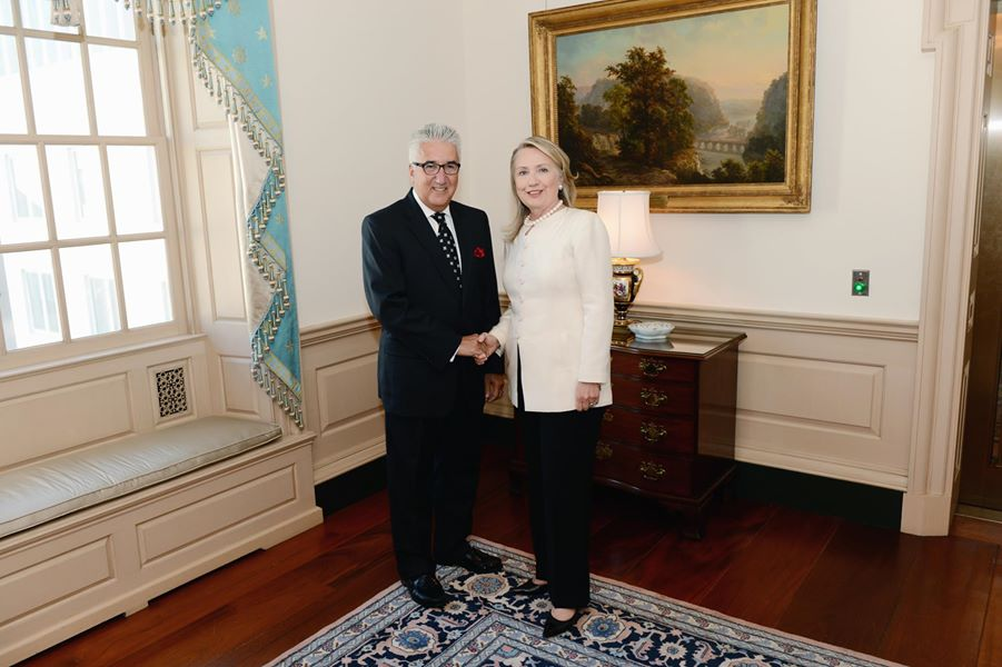 The then new Ambassador of the United States to Ghana, Gene A. Cretz, and the then Secretary of State of the United States, Hillary Rodham Clinton, at the nomination of Cretz to the ambassador to Ghana on the 8th of October, 2012.